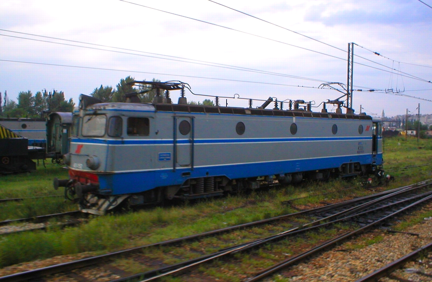 JŽ 461 series locomotive in Belgrade, Serbia